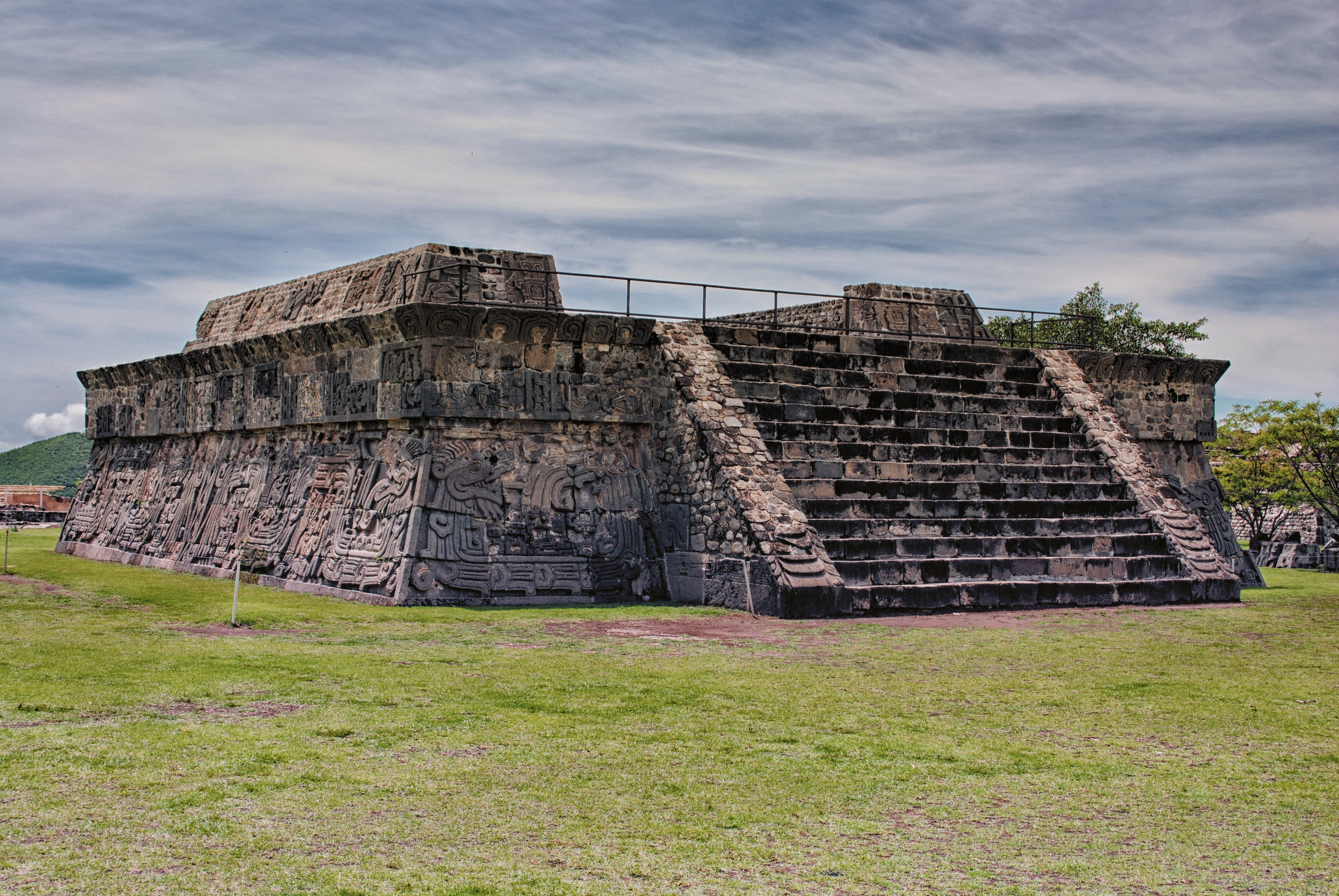 Temple of the Feathered Serpent in Xochicalco archeological site. Image was taken during my holiday on 10th August, 2010.